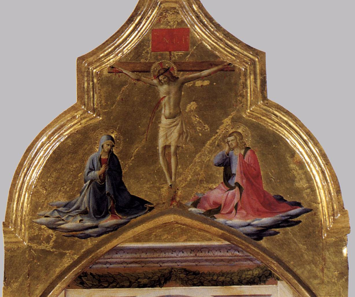 Cortona Polyptych (detail) Panel